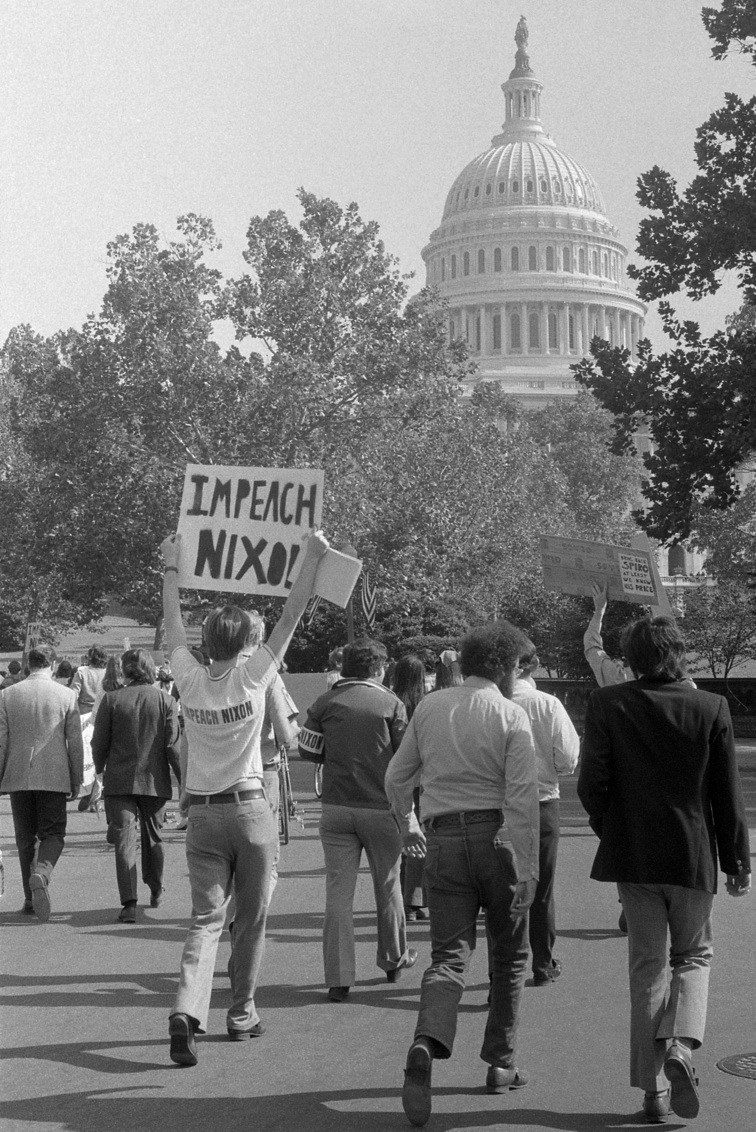 Demonstrators in Washington, DC, with sign "Impeach Nixon."